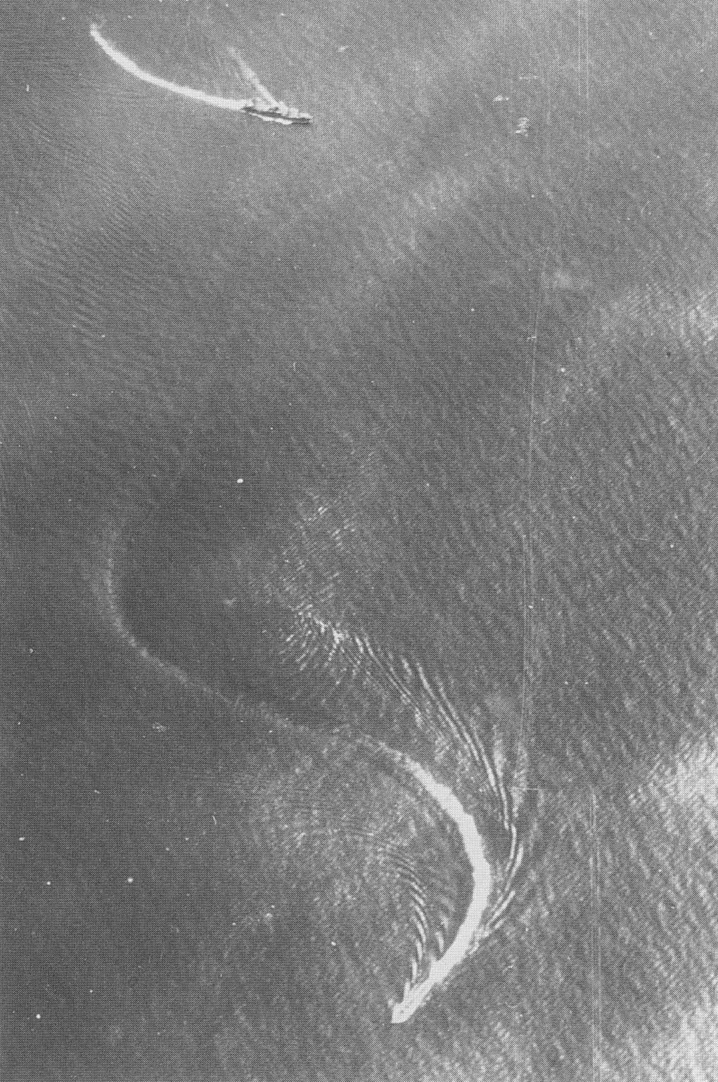 Imperial Japanese Navy seaplane tender Kiyokawa Maru (top) and destroyer Mochizuki (bottom) maneuver under air attack by United States Navy aircraft from the aircraft carrier Yorktown in the Huon Gulf near New Guinea during the Invasion of Lae-Salamaua on 10 March 1942. Both ships escaped significant damage.